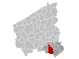 Map of the province West-Flanders. Kortrijk municipality. Kortrijk arrondissement.